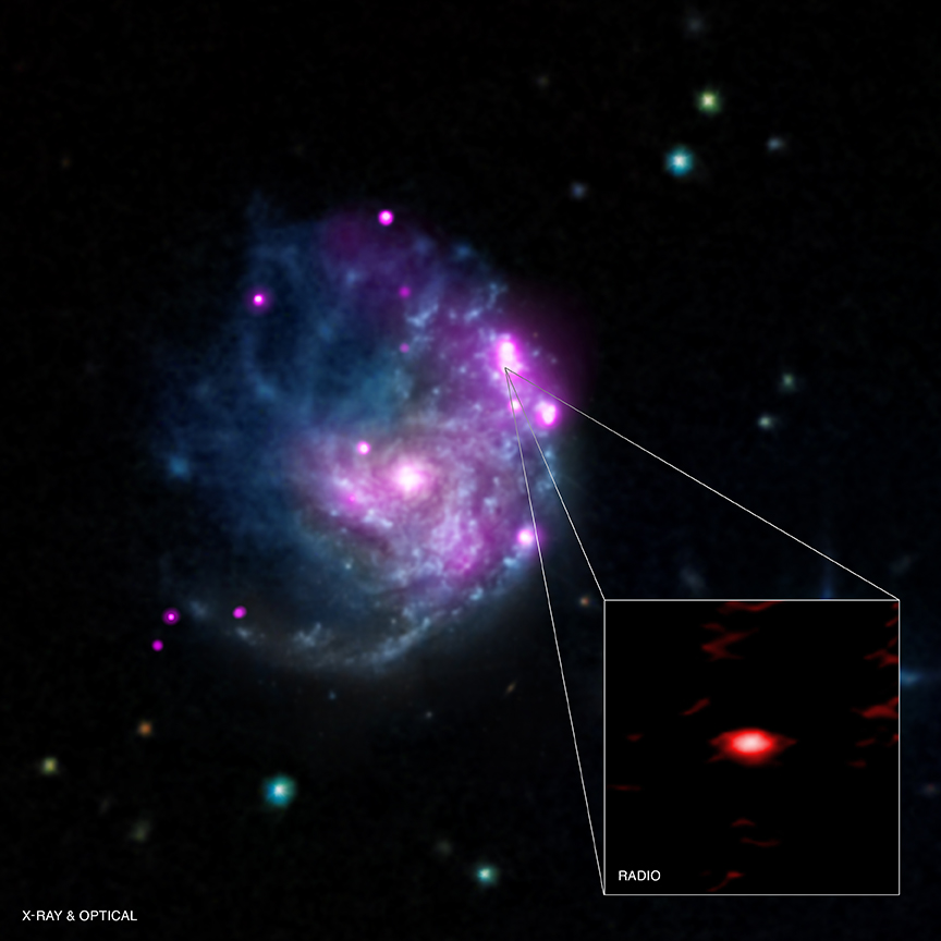 A newly discovered object in the galaxy NGC 2276 may prove to be an important black hole that helps fill in the evolutionary story of these exotic objects. This source, known as NGC 2276-3c, is likely an intermediate-mass black hole with about 50,000 times the mass of the Sun. The main graphic shows a composite image of the whole galaxy, with X-rays from Chandra (pink) and optical data (red, green, and blue). The inset zooms into just NGC 2276-3c and reveals its emission in radio waves, including a jet produced by the black hole that appears to be squelching star formation. By combining the X-ray and radio data, astronomers are learning about the properties of this object and how it influences its surroundings.